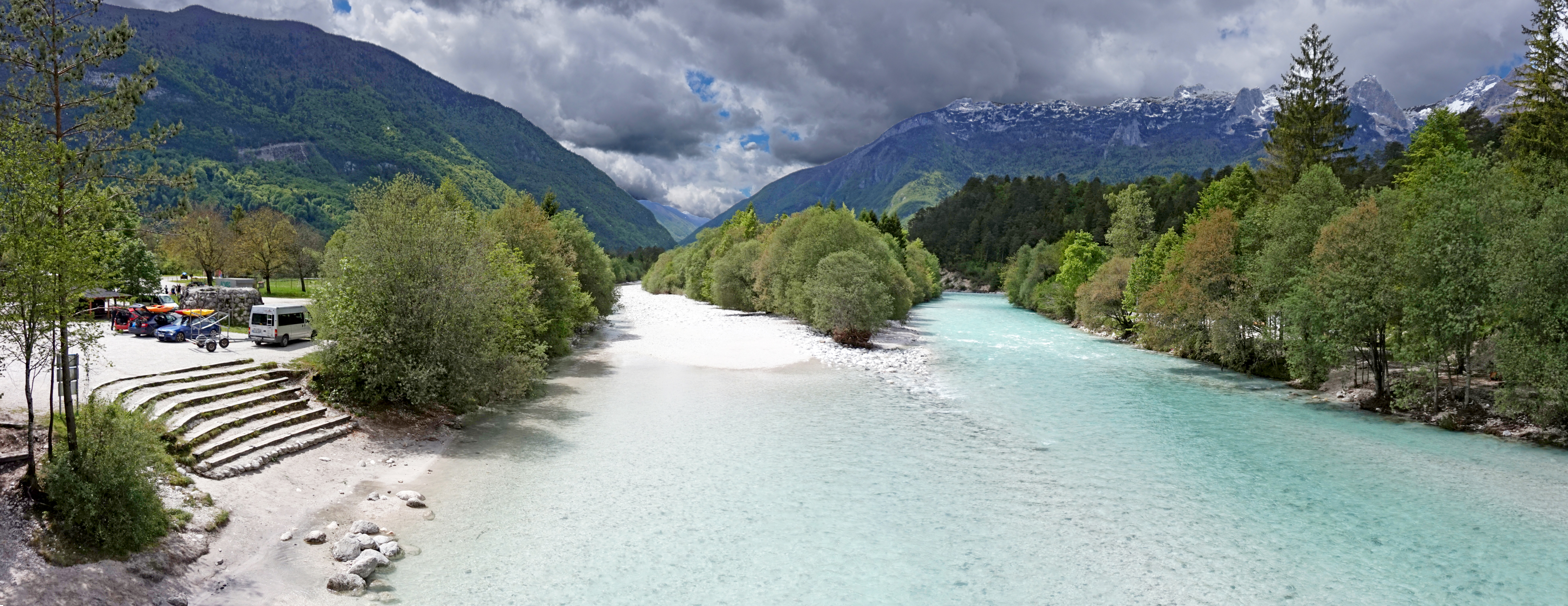 Soča river in Slovenia.This photograph was taken with a Sony ILCE-5000